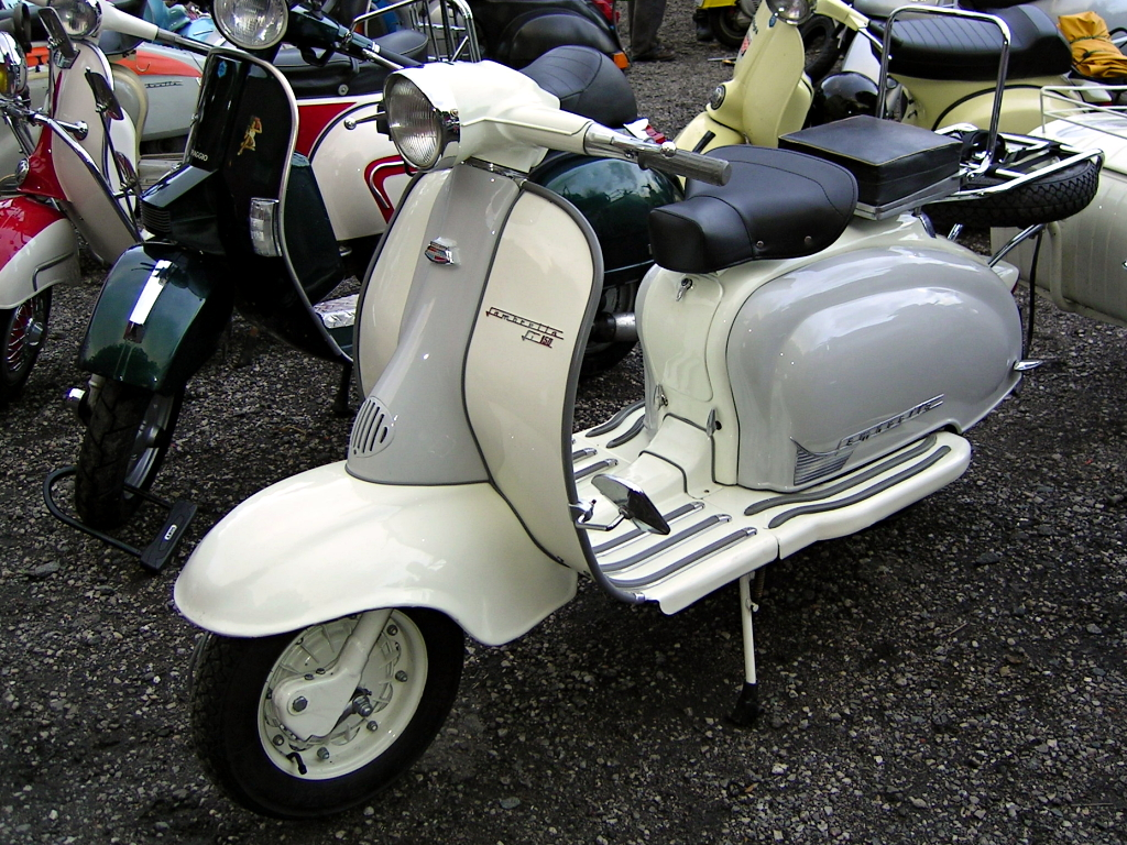 Lambretta Li 150 scooter in Gothenburg Rally, Sweden 2004.